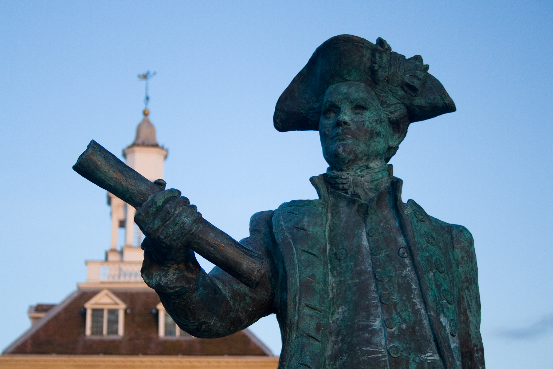 George Vancouver statue in King's Lynn, Norfolk